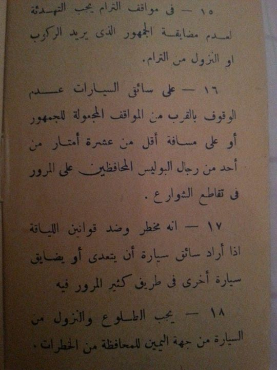 Egyptian driving licence issued in 1933